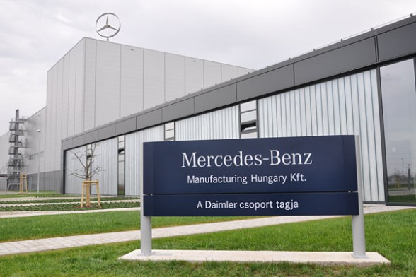 mercedes kecskemet